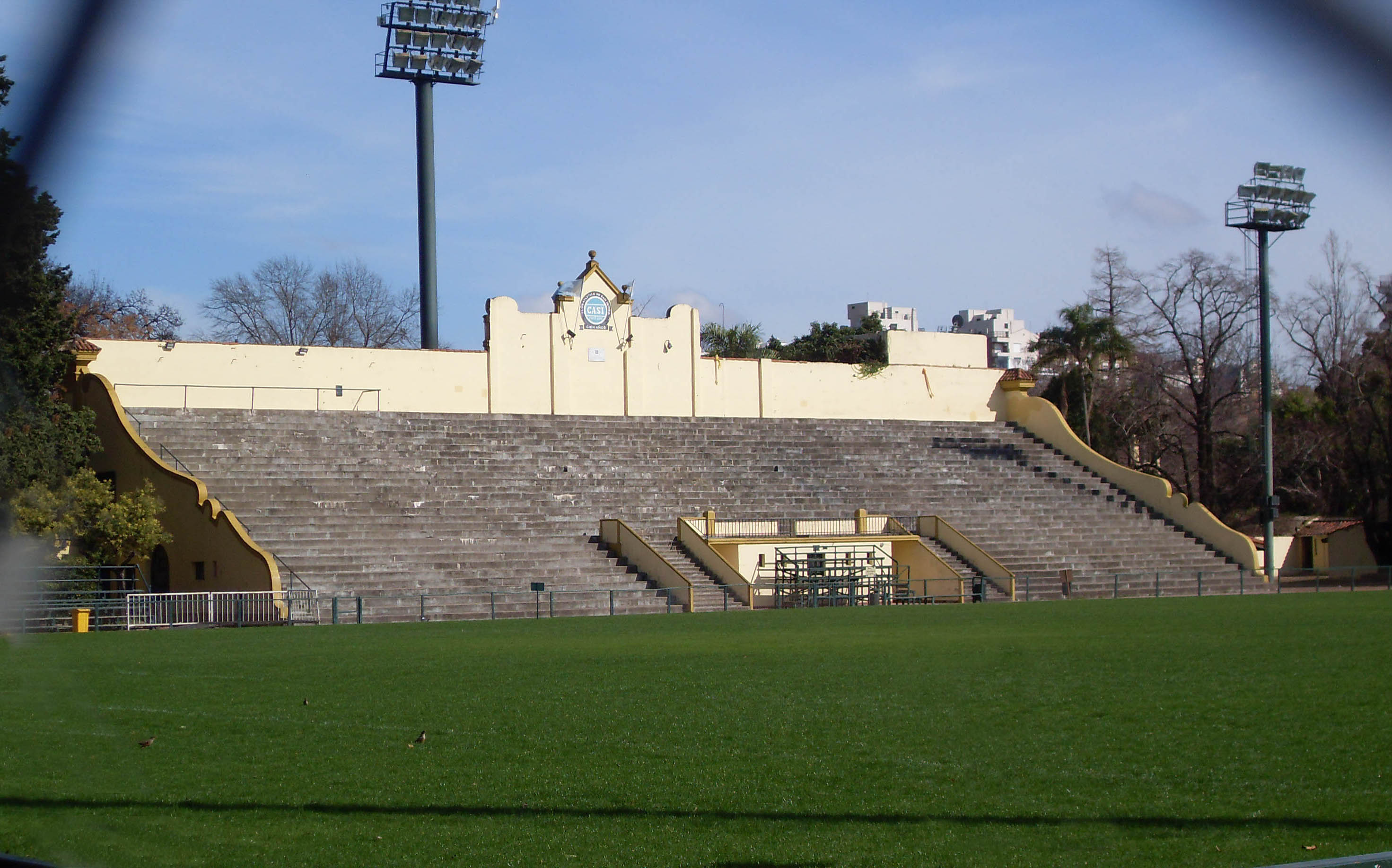 Main grandstand at C.A. San Isidro's rugby field, as seen from Varela street. Senior team matches and Torneo de la URBA finals are played there.